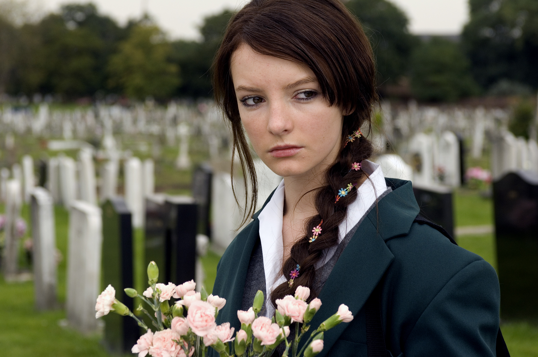 A publicity still from Dustbin Baby showing April, played by Dakota Blue Richards